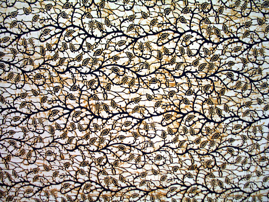 "Pagne Wax" (kind of Batik used in west Africa